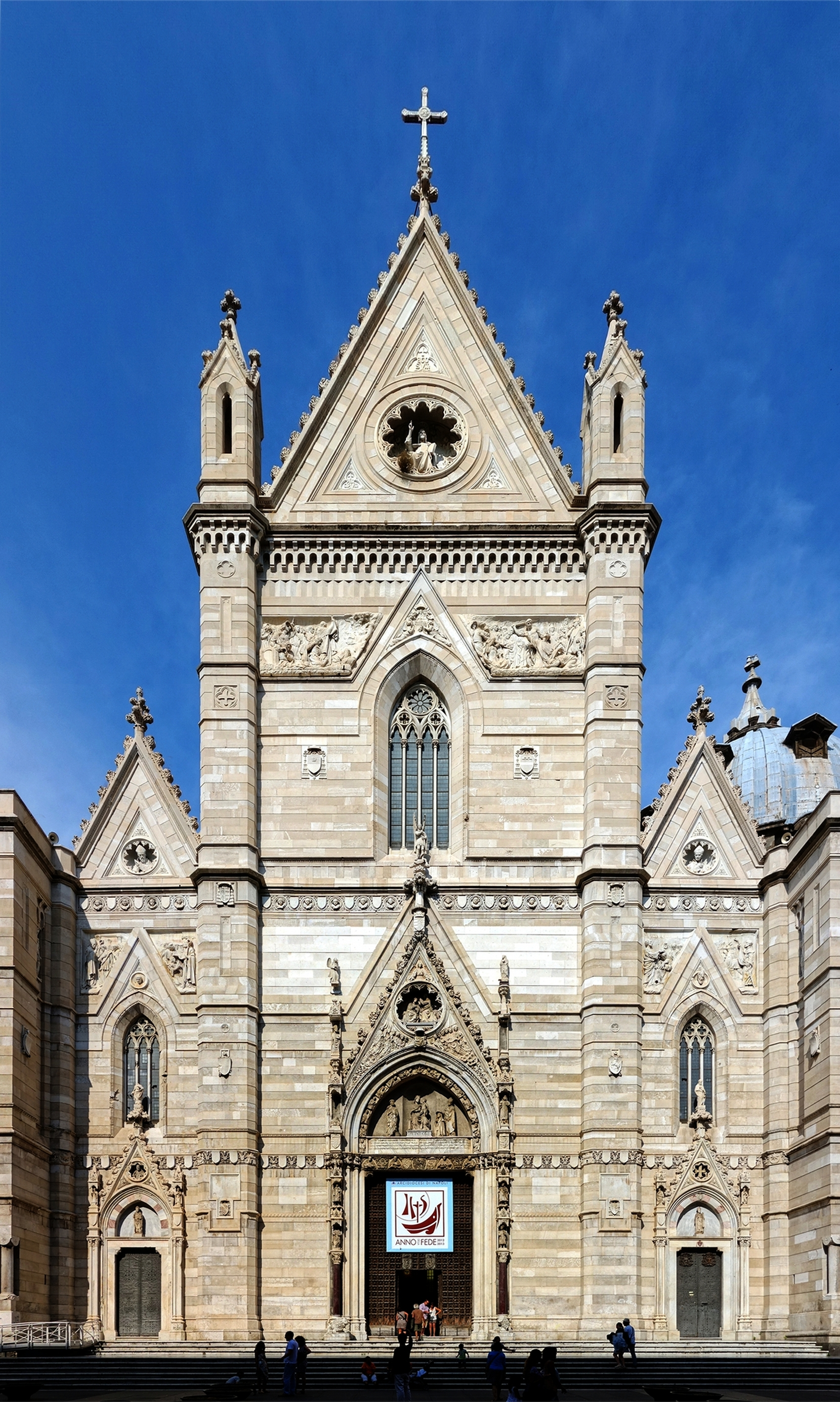 Facade of il Duomo di Santa Maria Assunta in Naples, italy.